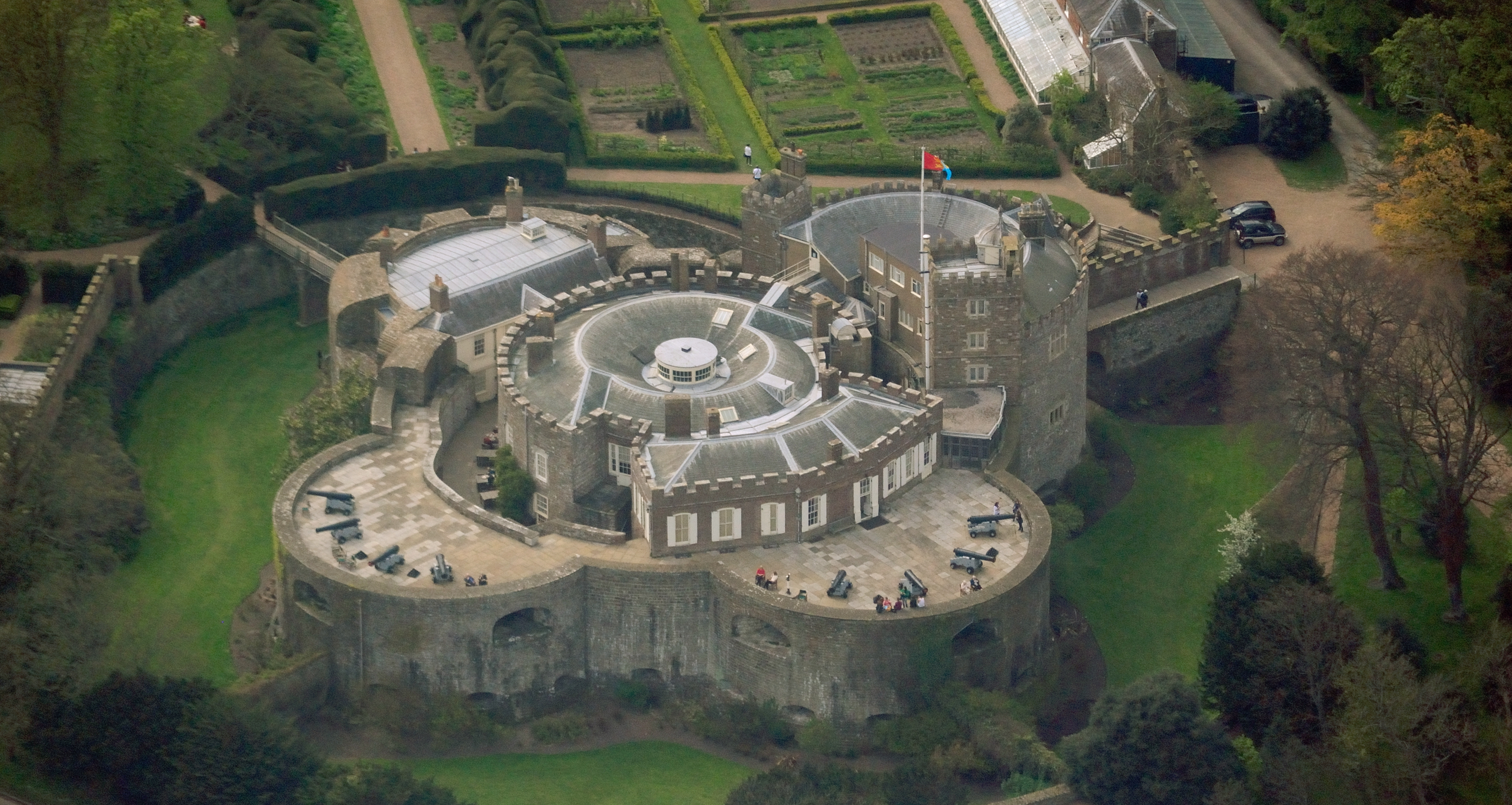 Aerial view of Walmer Castle on the East coast of Kent (England). Nikon D60 f=145mm f/6.3 at 1/2500s ISO 800. Processed using Nikon ViewNX 1.5.2 and GIMP 2.6.6.